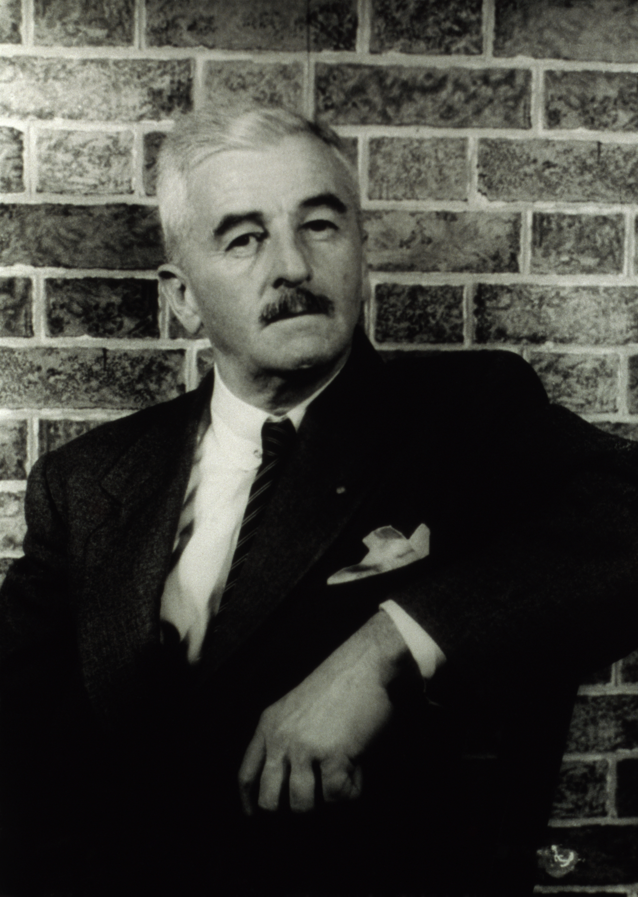 Author William Faulkner in 1954